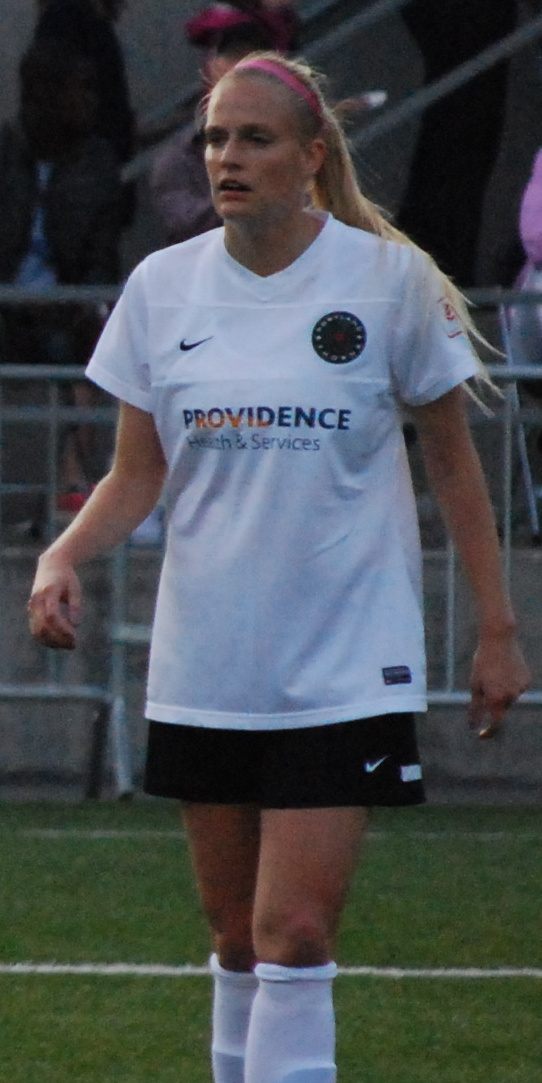 Kathryn Williamson of Portland Thorns at Starfire Stadium in Tukwila, Washington on May 25, 2013